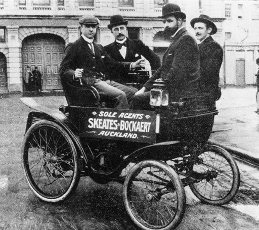 1898 Star 3½ hp motor car, the first motor car in Auckland New Zealand Imported by Arthur Marychurch and sold within weeks to Skeates and Bockaert Four men riding in a "horseless carriage". Advertising on the car reads: Sole Agents Skeates-Bockaert Auckland.